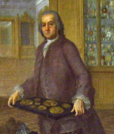 emperor Franz Stephan (sitting) together with his natural science advisors. From left to right: Gerard van Swieten, Johann Ritter von Baillou, Valentin Jamerai Duval (numismatist) and Abbé Johann Marcy